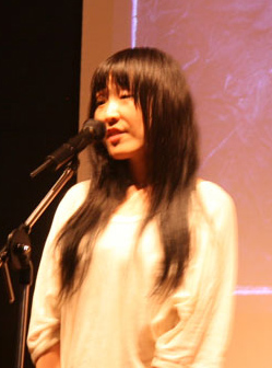 Picture of Suah Bae Speaking